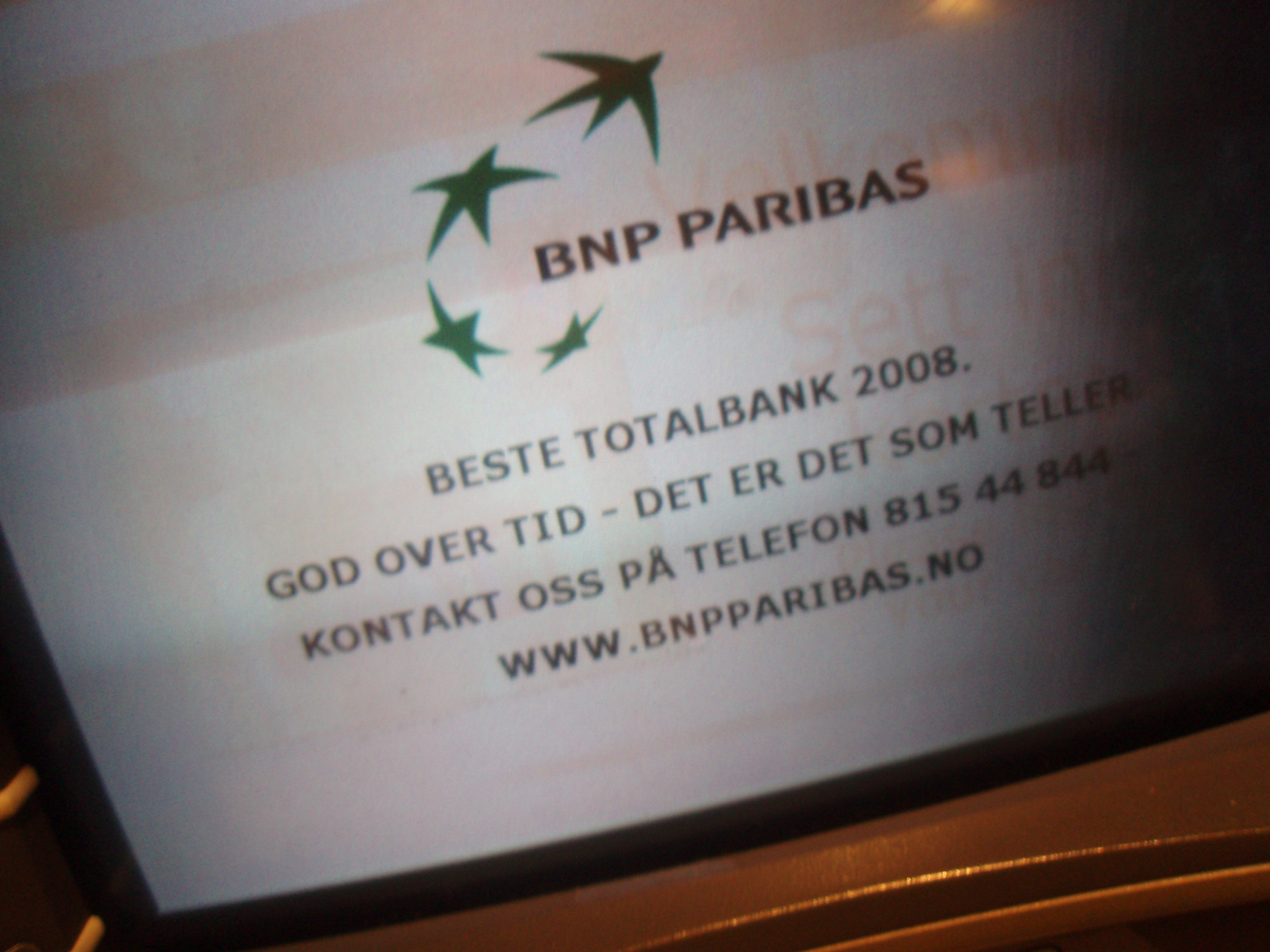 CRT Display in an ATM machine where a screen burn-in has occured.